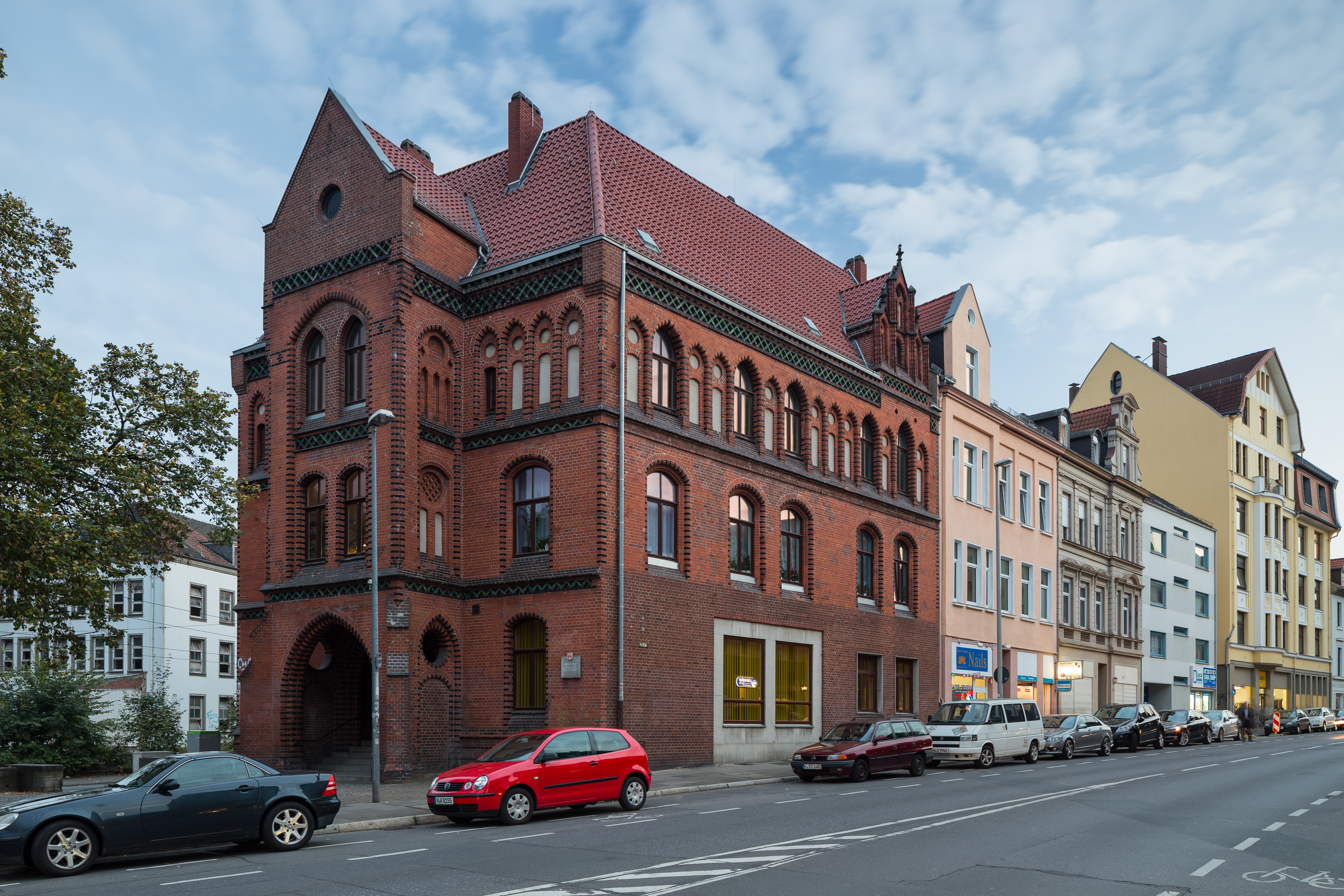 Old town hall of the former city of Linden, nowadays a district of Hanover, Germany. The building is located at Deisterstrasse.